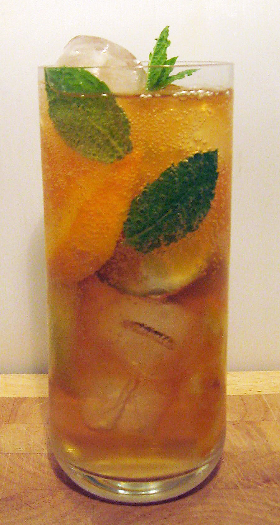 a picture of fruit Cup, mixed with lemonade and garnished